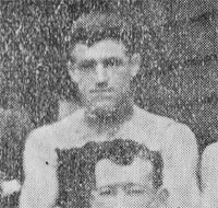 Fred Webber from 1902–1904